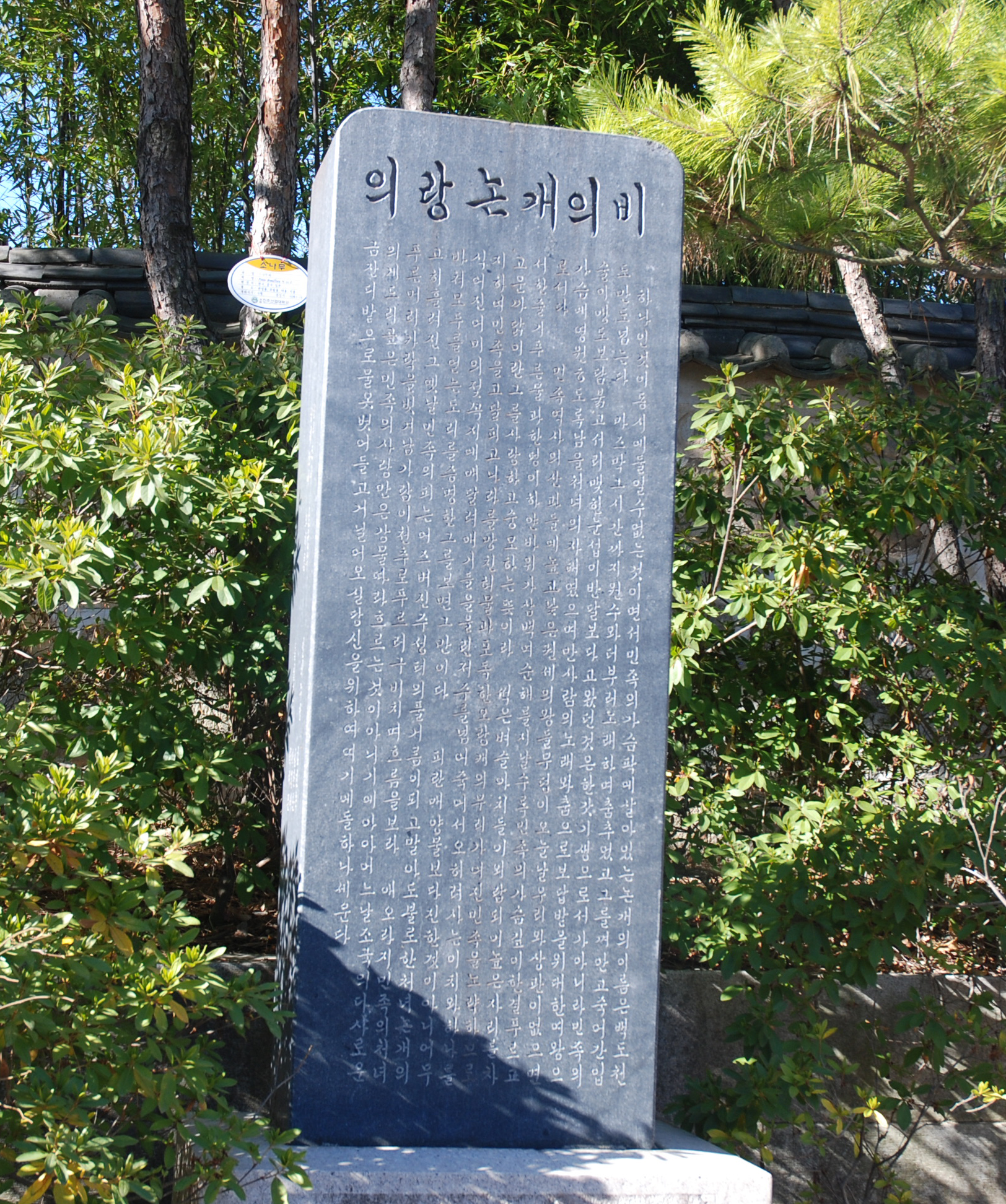 The stone monument for Nongae in the Jinju castle at Nangae Shrine